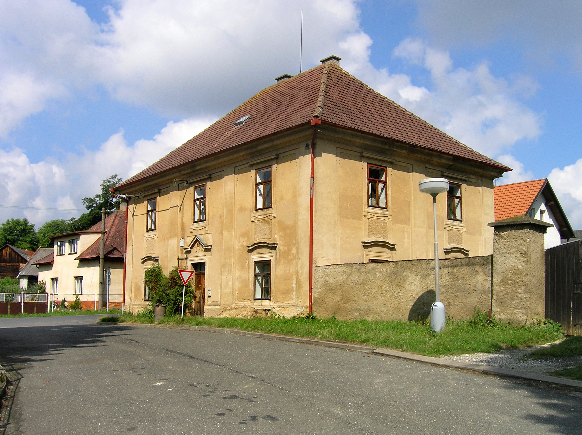 Presbytery in Bohdaneč, Czech Republic